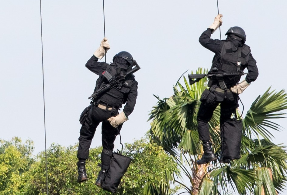 Members of the Indonesian Special Forces hold a demonstration in honor of Defense Secretary James N. Mattis before Mattis met with Indonesia's Chief of Defense Marshal Hadi Tjahjanto in Jakarta, Indonesia on Jan. 24, 2018. (DoD photo by Army Sgt. Amber I. Smith)